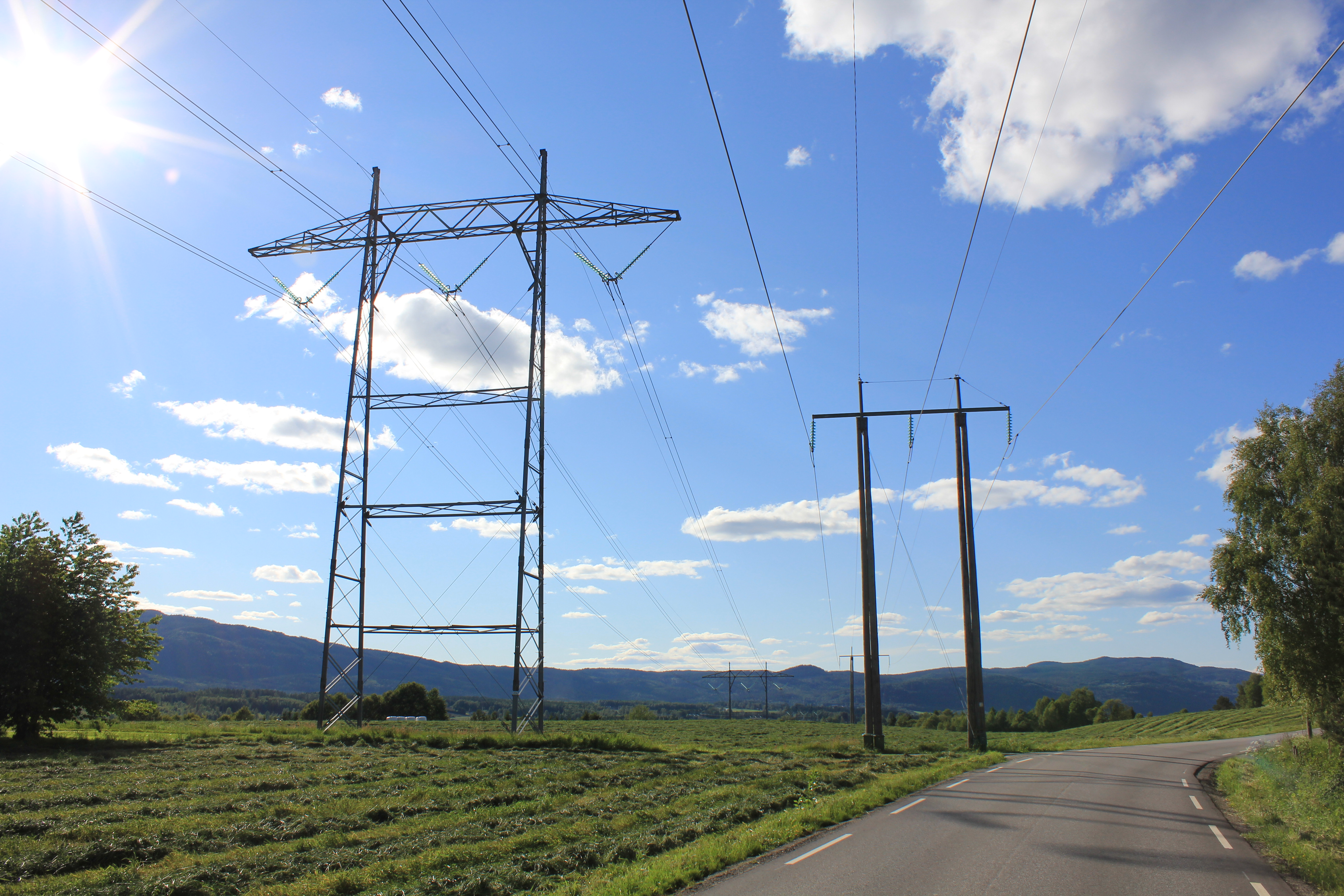 Electricity gates / High voltage masts.